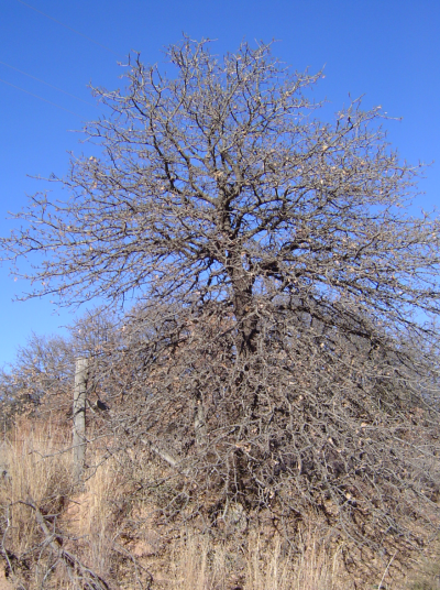 Blackjack and little bluestem in Lincoln County, Oklahoma. Taken by me.